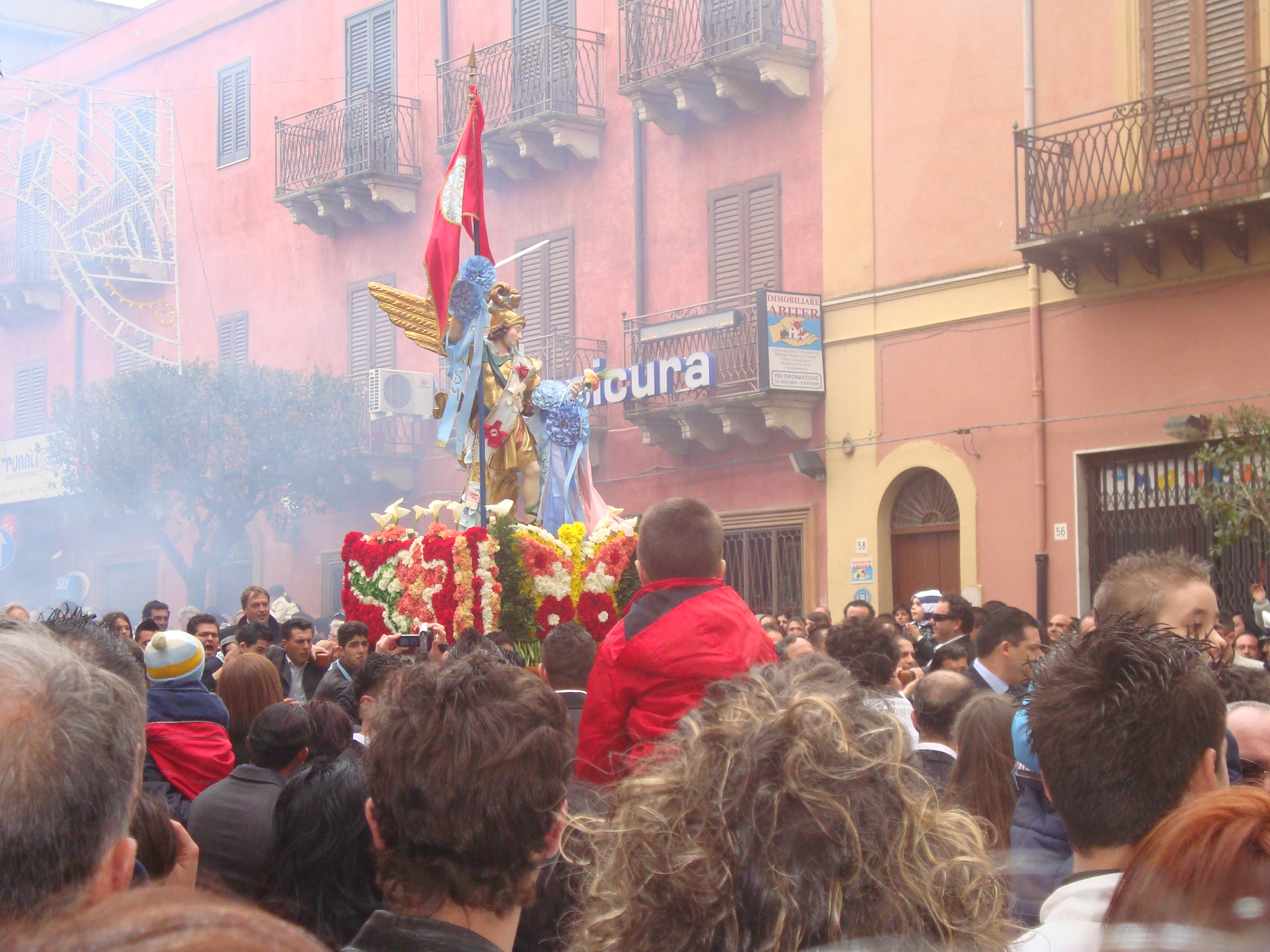 Ribera' Easter - Statue of Saint Michael (archangel)